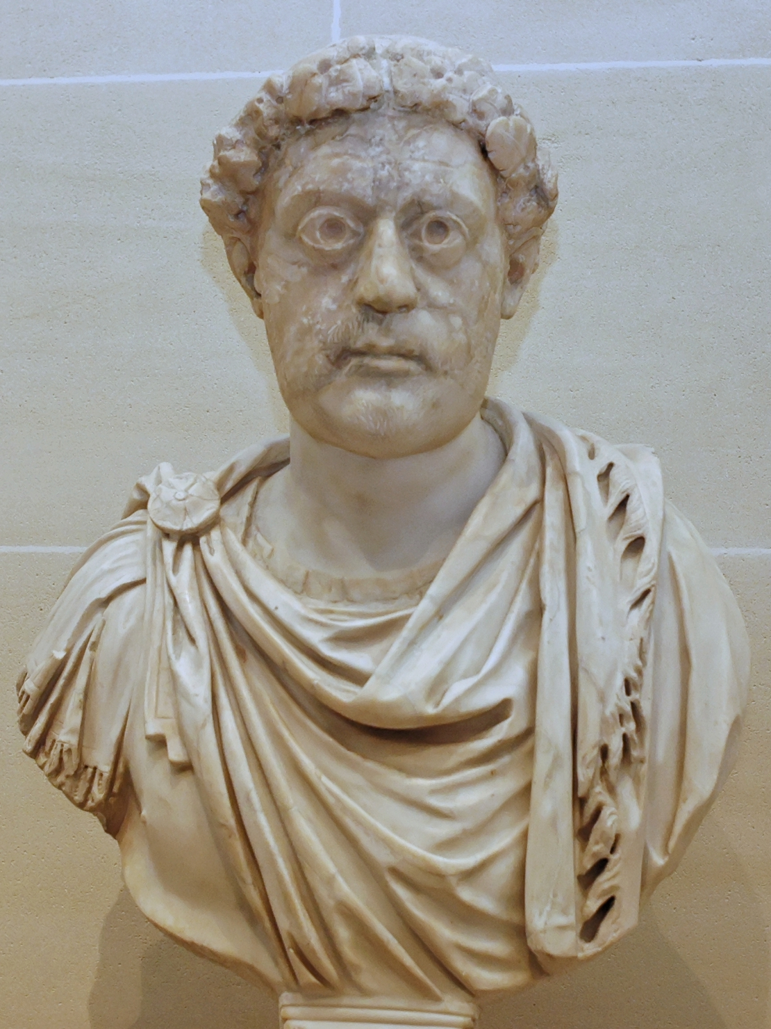 Bust of Byzantine Empreror Leo I (reigned 457–474 AD). Alabaster (antique head) and marble (modern restoration), ca. 470 AD.